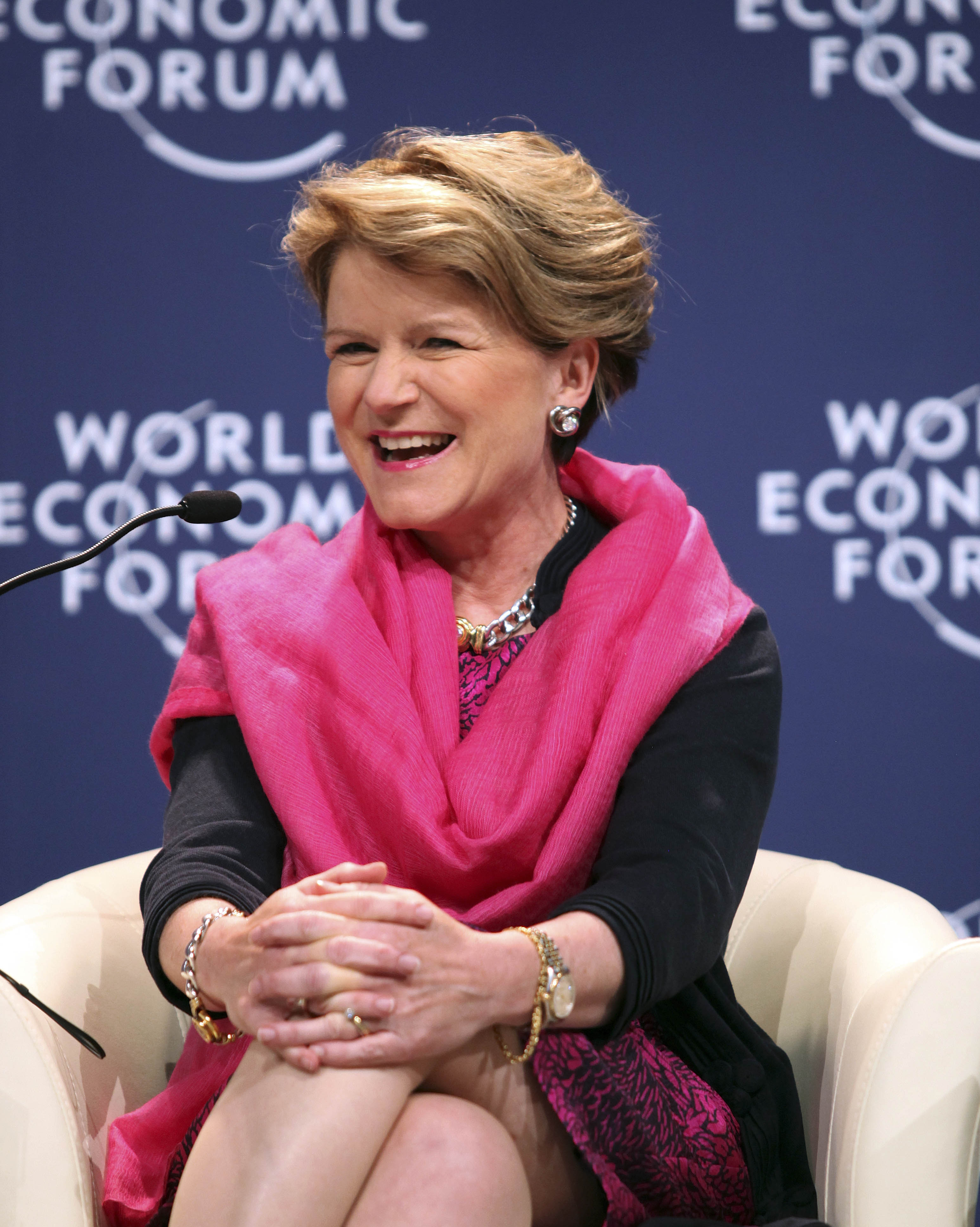 Marie-Gabrielle Ineichen-Fleisch during the Championing Competitiveness session of the World Economic Forum Annual Meeting of the New Champions.